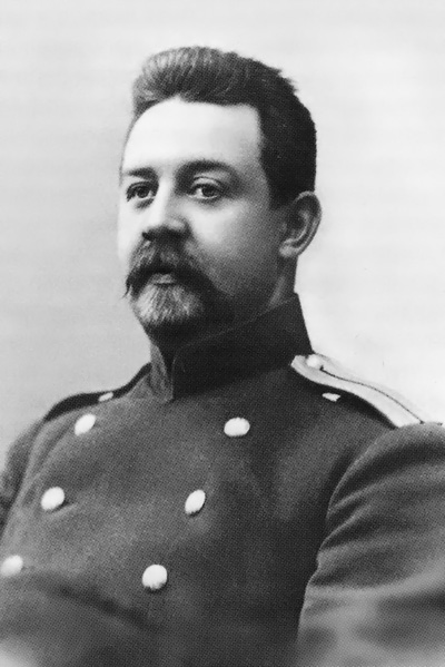 Ivan Rerberg, Russian engineer and architect, photo of 1900s.